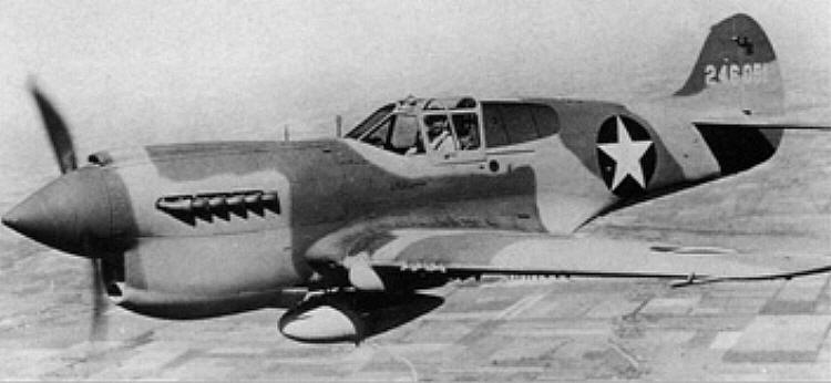 Curtiss P-40K-1-CU Warhawk.